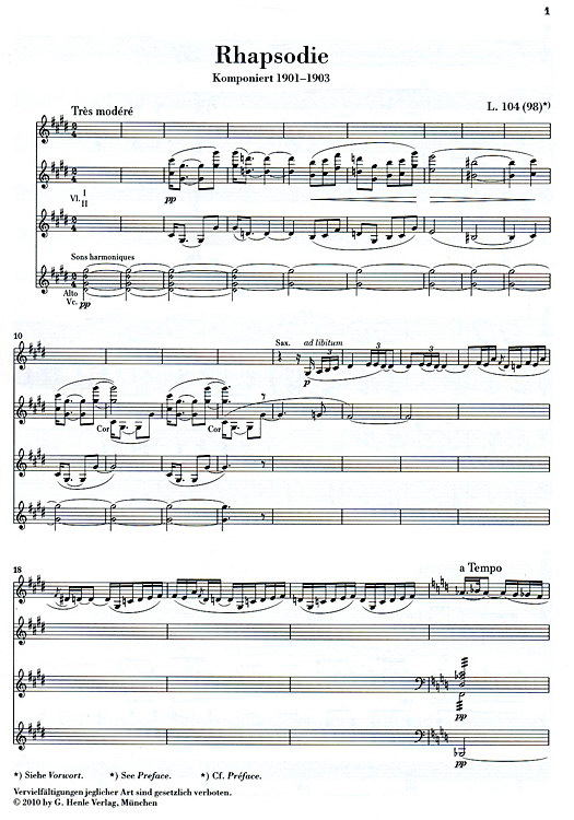 Claude Debussy: Rhapsodie pour Saxophone Alto et Orchestre (Particell)